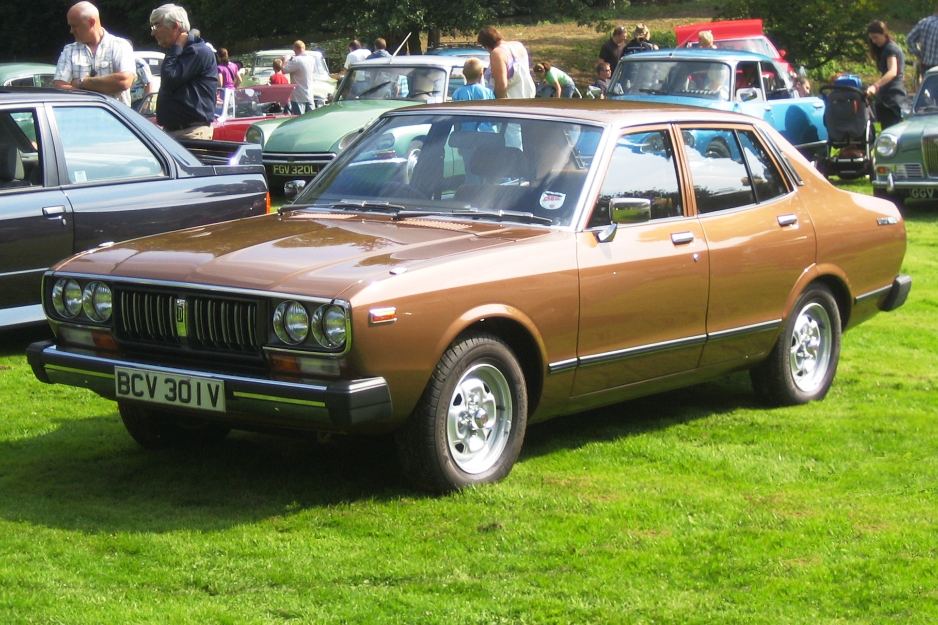 Datsun Bluebird (UK / European contemporary nomenclature) ca 1980 in north Essex According to UK tax office this car was first registered 01 August 1979, runs on petrol (gasoline) and has an engine size of 1770cc. The car appears to be taxed, so presumably still running and road legal in the UK, in September 2013